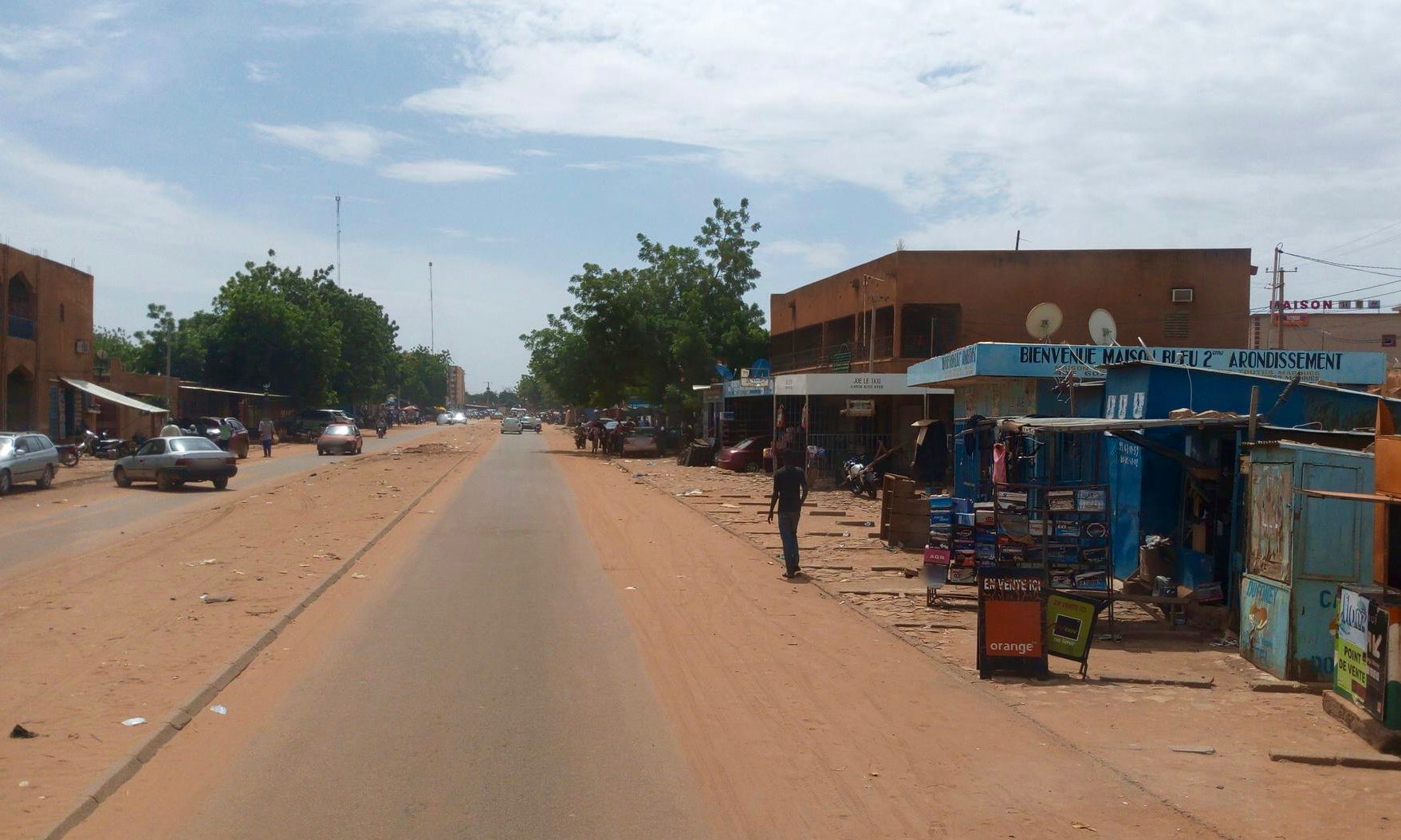 Avenue Soni Ali Ber as the boundary road between the quarters of Abidjan (left) and Kalley Est (right), Niamey.